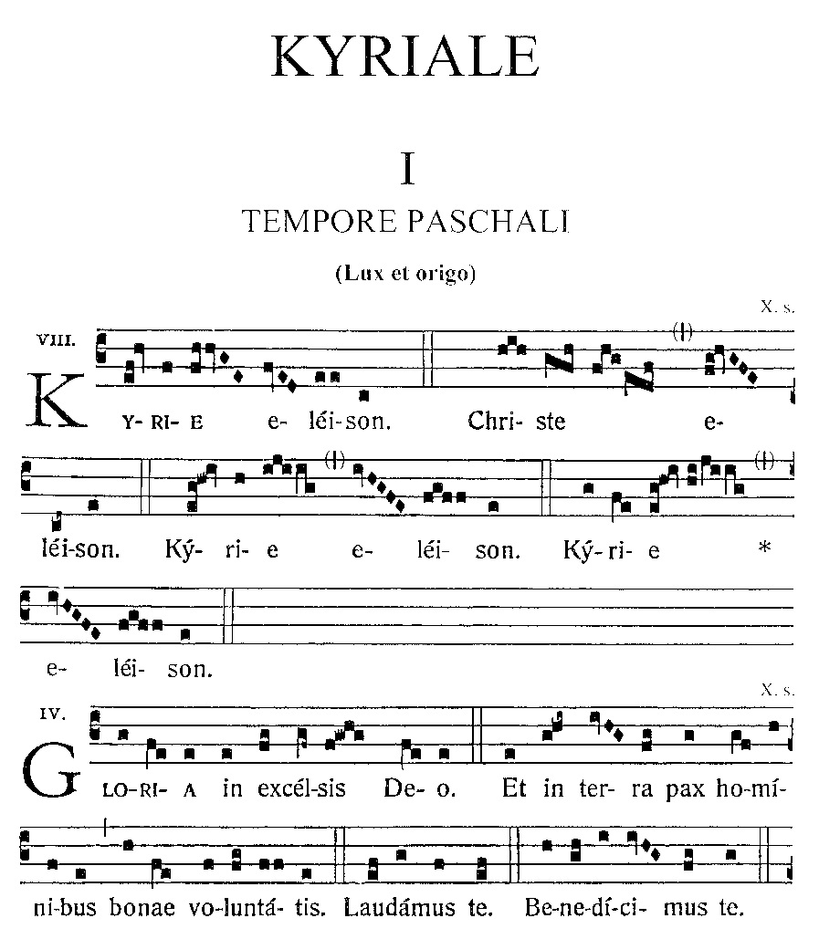 Gregorian chant, Beginníng of I. mass in Graduale Novum